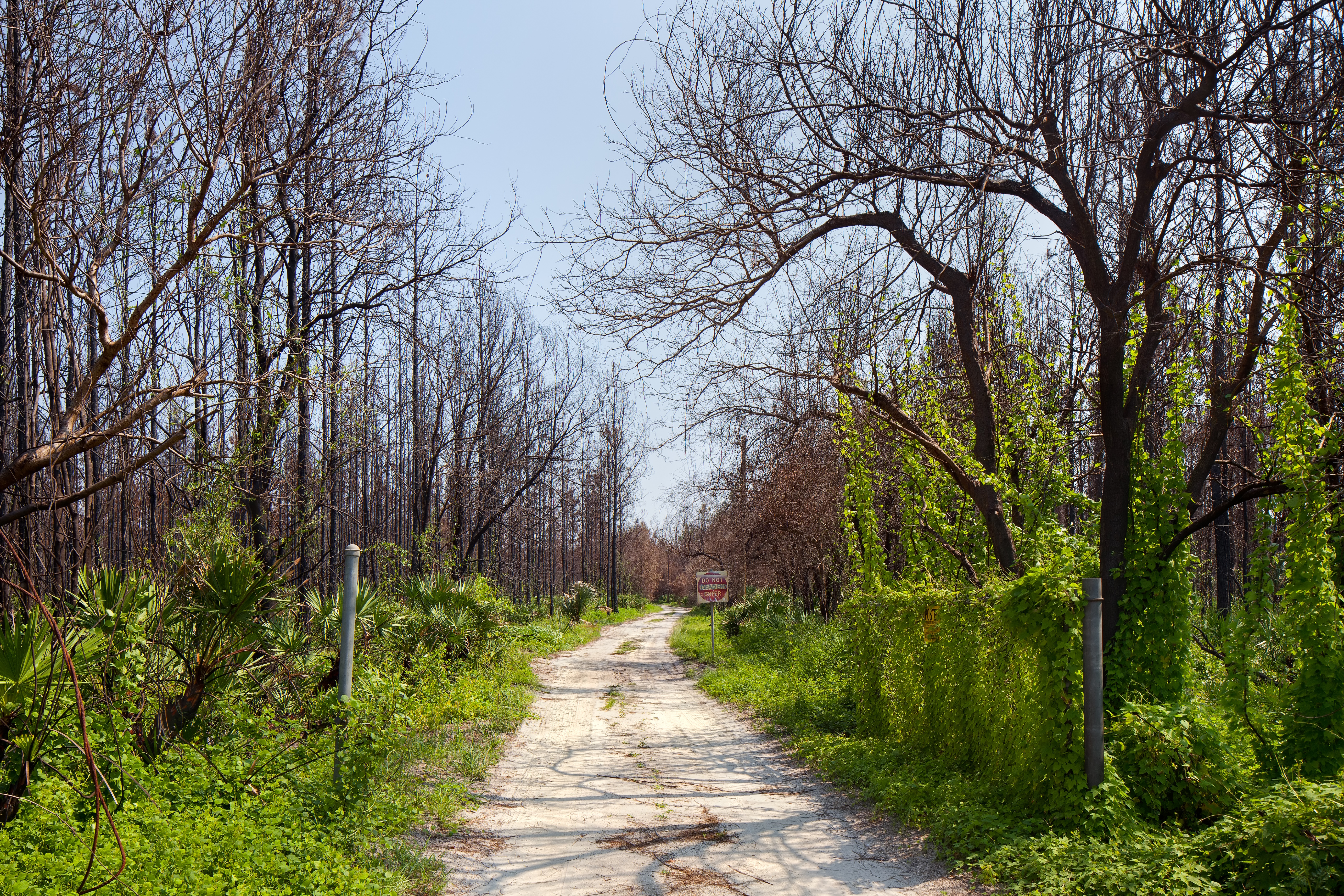 Road to Cow Creek, Volusia County, Florida